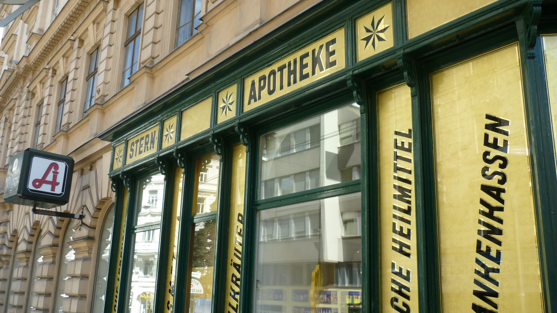 Historical billboards for the pharmacy called "Zum Stern" ("To The Star") in Vienna's 4th district at Favoritenstrasse # 25 at the corner to Karolinengasse